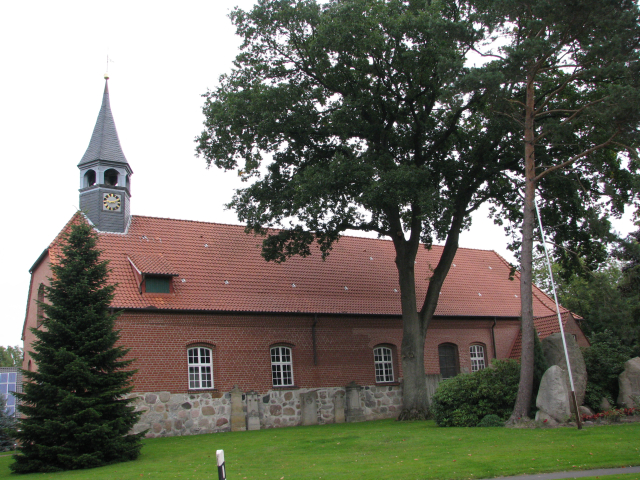 Lutheran Church St. Dionysius in Hamelwörden